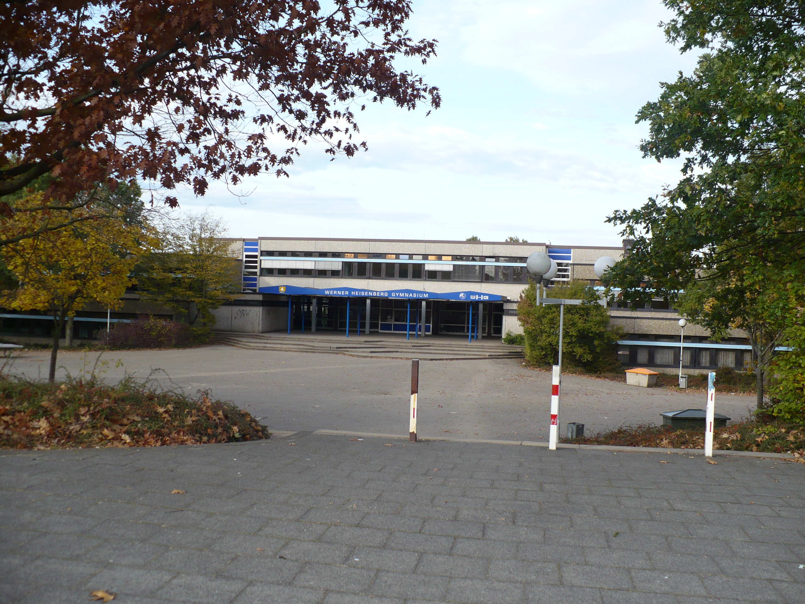 This picture shows the "Werner-Heisenberg-Gymnasium" in Leverkusen, Germany